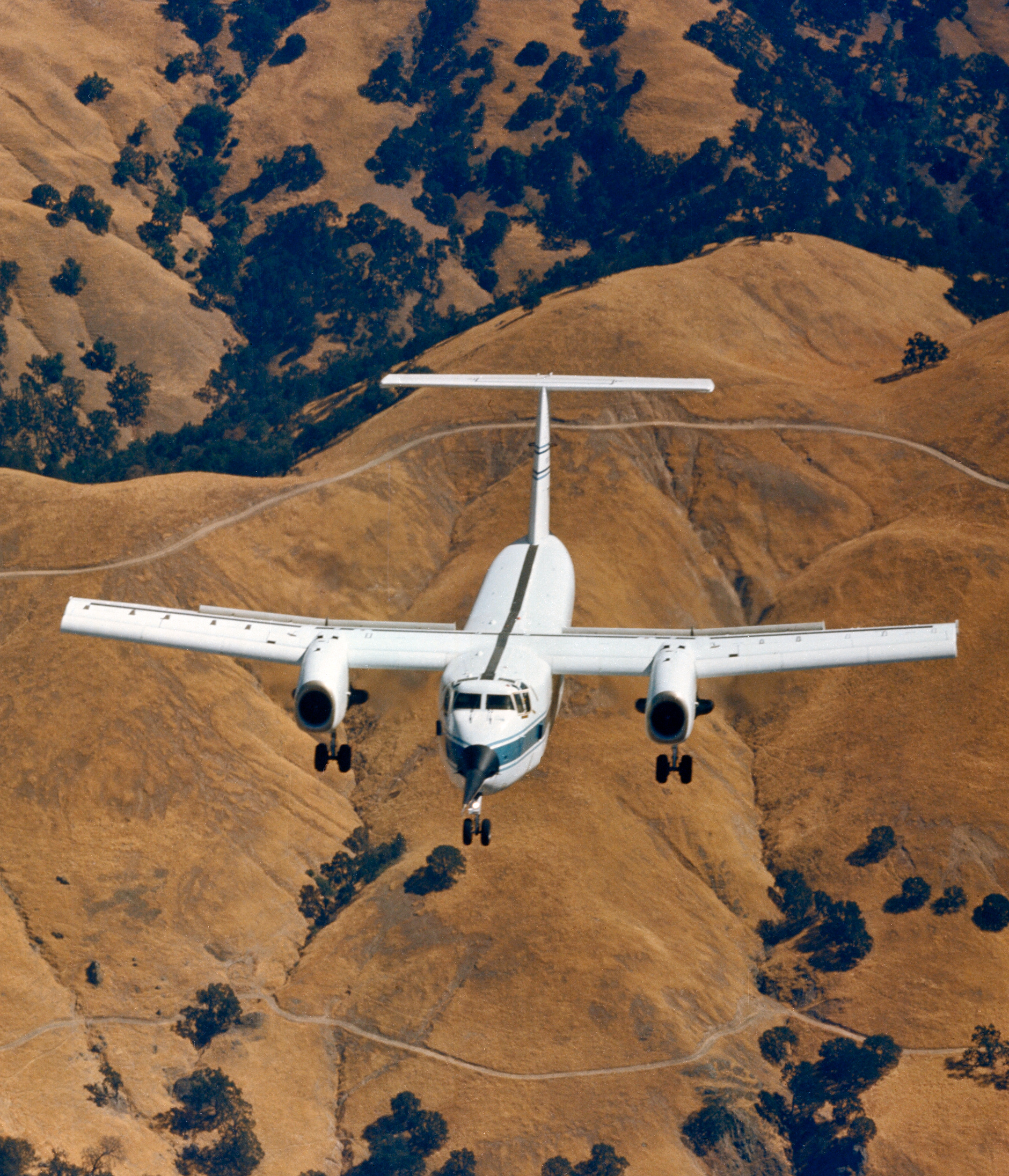 NASA C-8A (NASA-716) Buffalo Augmentor Wing Jet STOL Research Aircraft (AWJSRA) in flight.